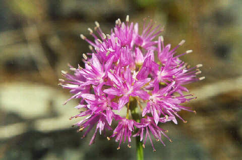 Allium douglasii 'columbianum', Clearwater National Forest, USA